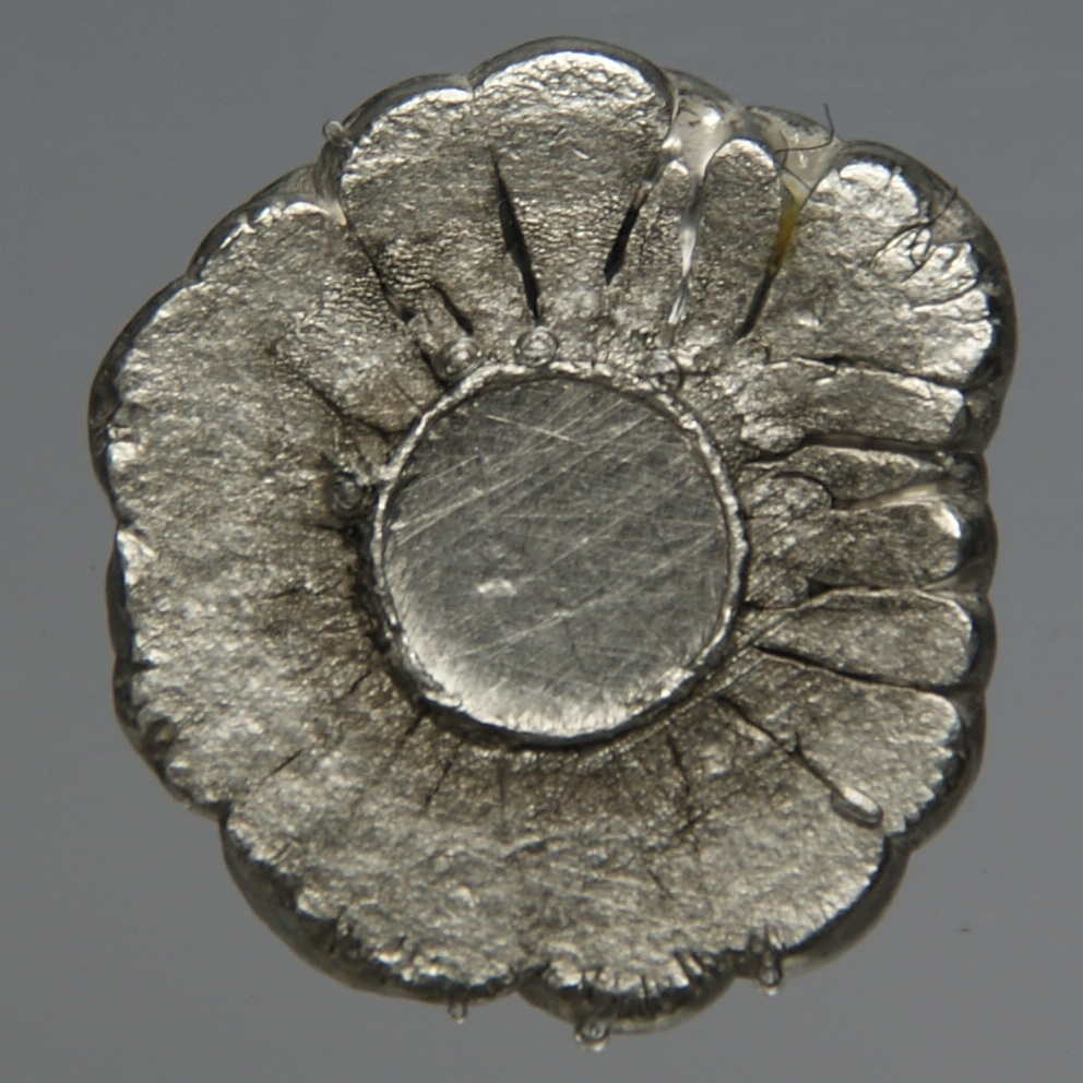 Section of a pure nickel accretion, obtained by electrolysis of a rod. Nickel is a quite inert metal, which often is used for plating, but frequently causes allergic reactions on the skins of many people. Nickel is ferromagnetic and, together with iron, forms the inner core of the Earth, which is a big magnet. The rather rare nickel 62 is the most stable isotope, the one with the highest binding energy.